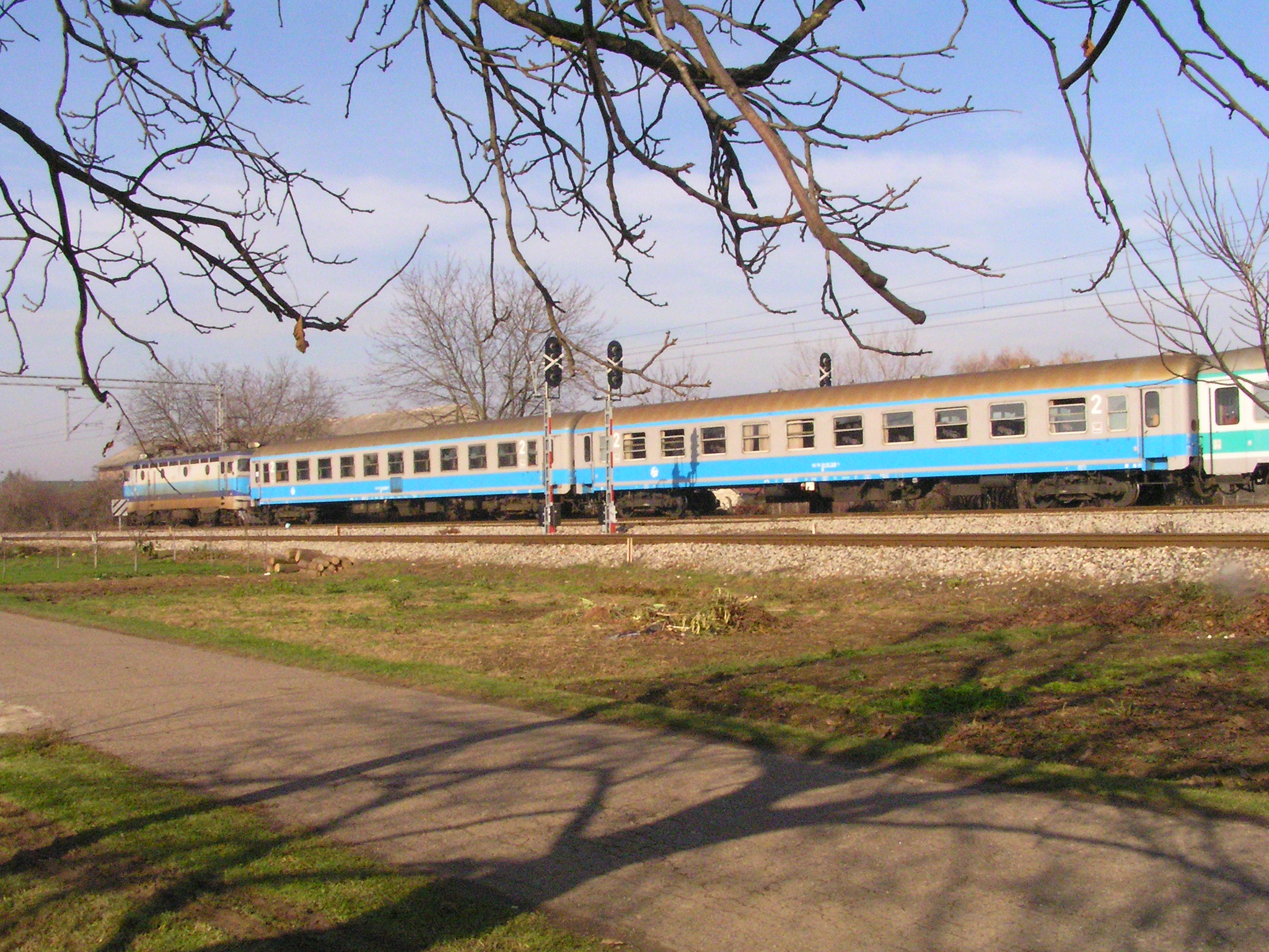 A passenger local train, passing non-active signal (the railway line is heavy modernised, so some signals are disabled)